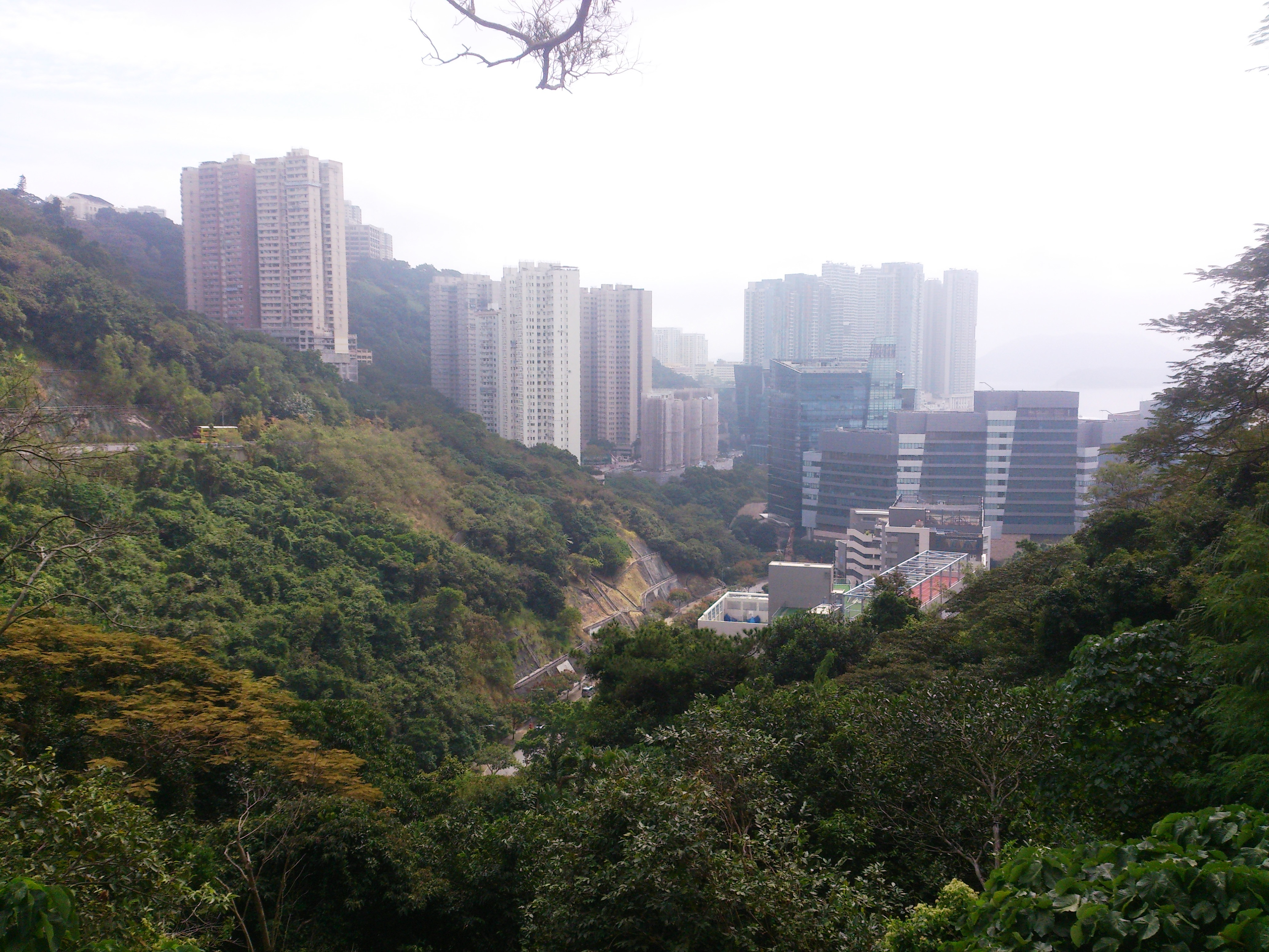 Far view of North Telegraph Bay (1)